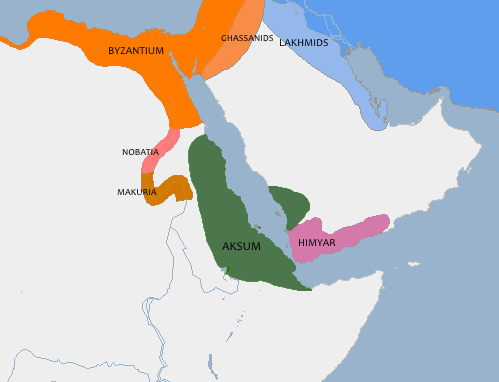 Aksumite Empire at its greatest extent